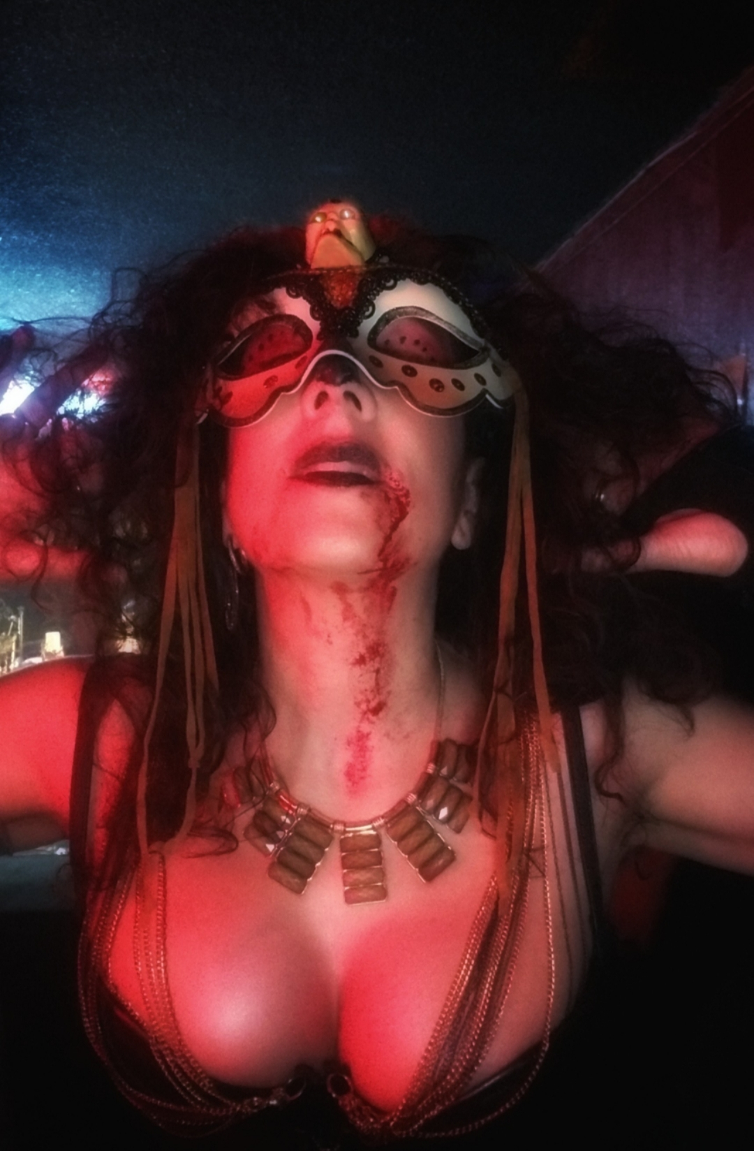 Creator Christina Z. dressed as her nihilistic, cannibalistic character 2019.